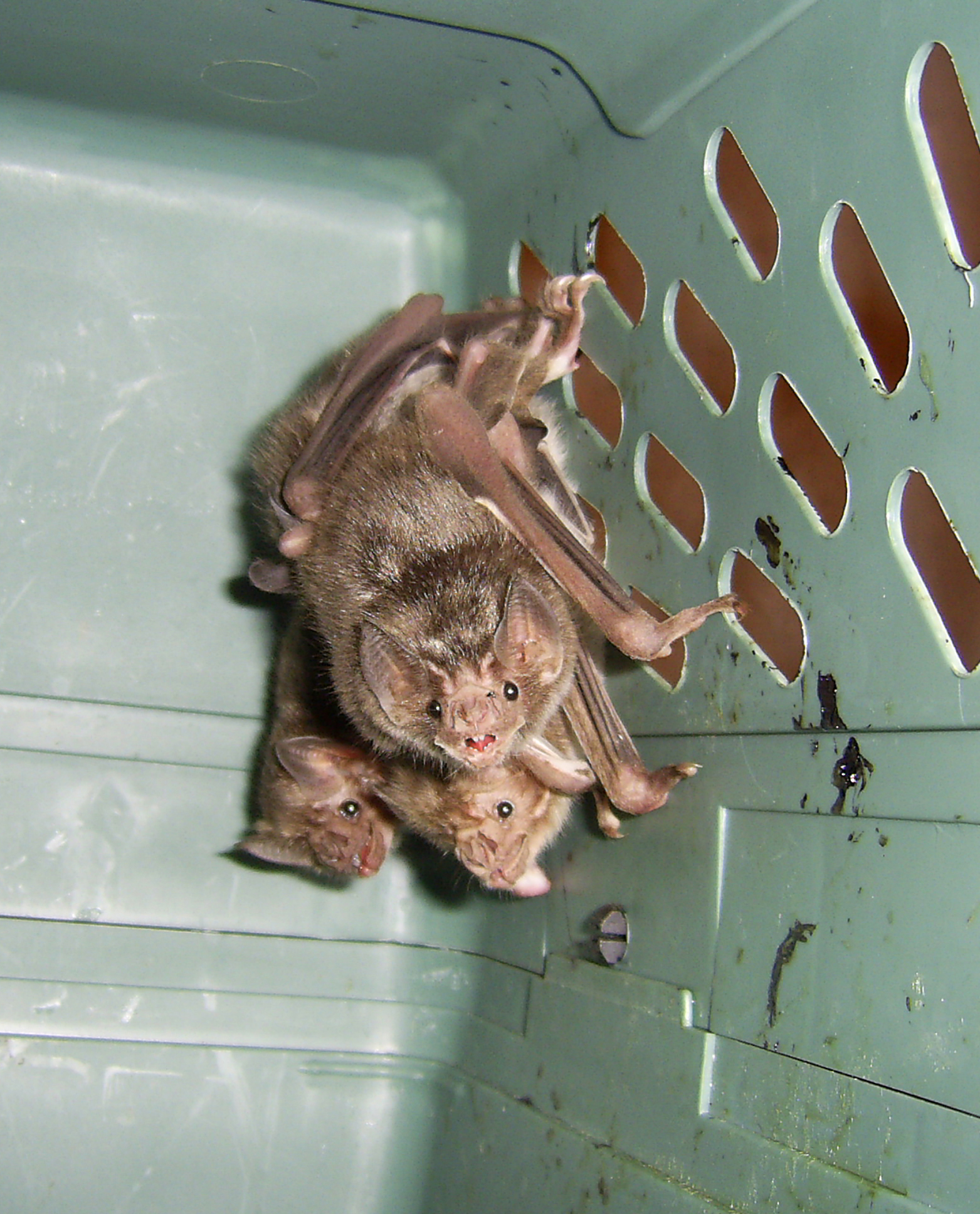 Vampire bats in a crate.